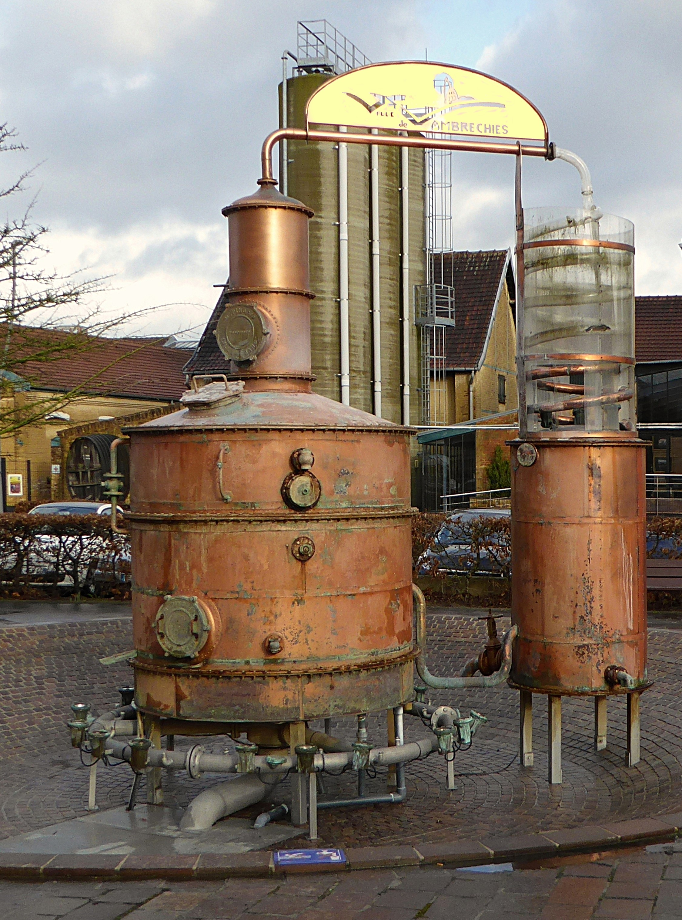 An old alembic used in the gin distillery "Claeyssens" Wambrechies (Nord). France